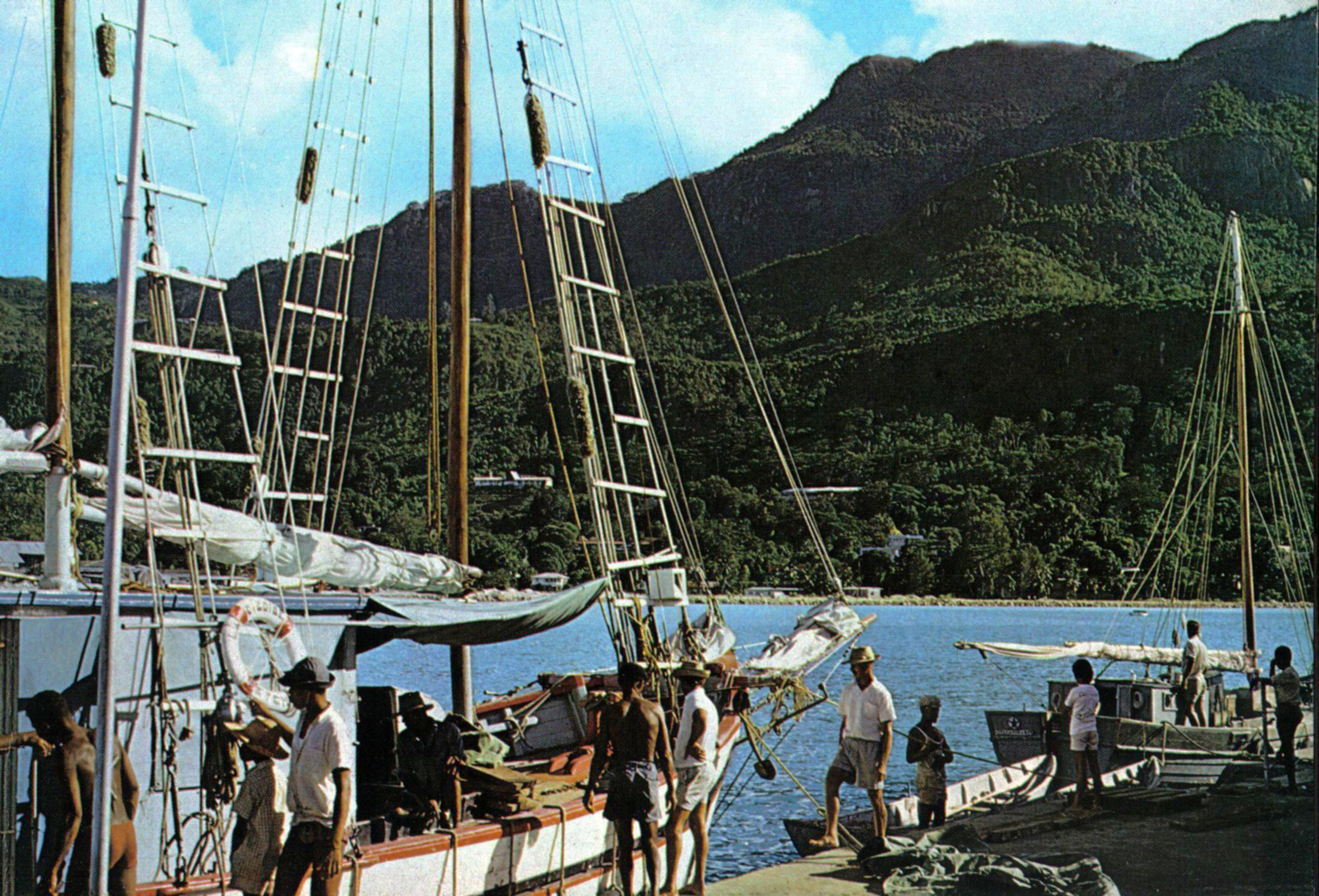 Inter-island schooners docked in Victoria's harbour, Seychelles